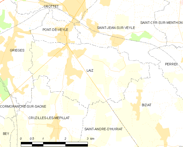 Map of French commune: Laiz Map commune FR insee code 01203.png